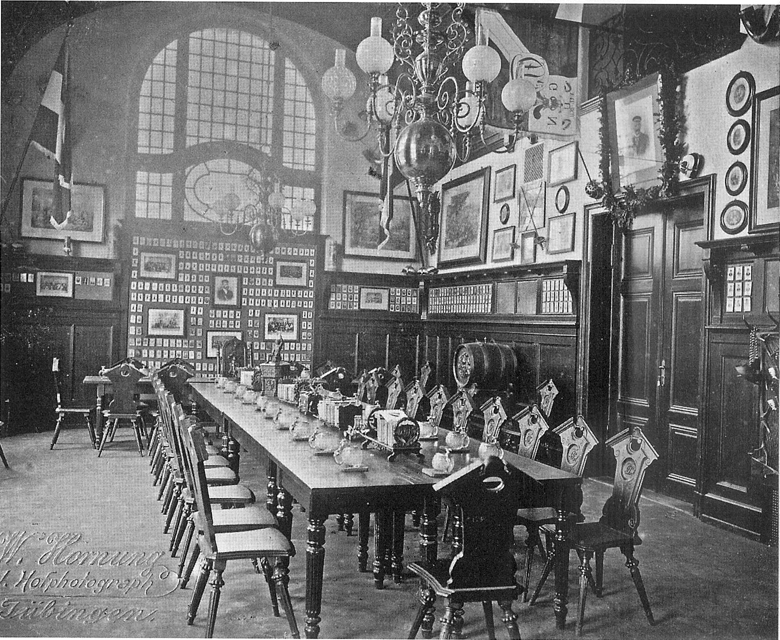 Great Hall in the former house of student fraternity Corps Suevia Tübingen, Gartenstraße 12